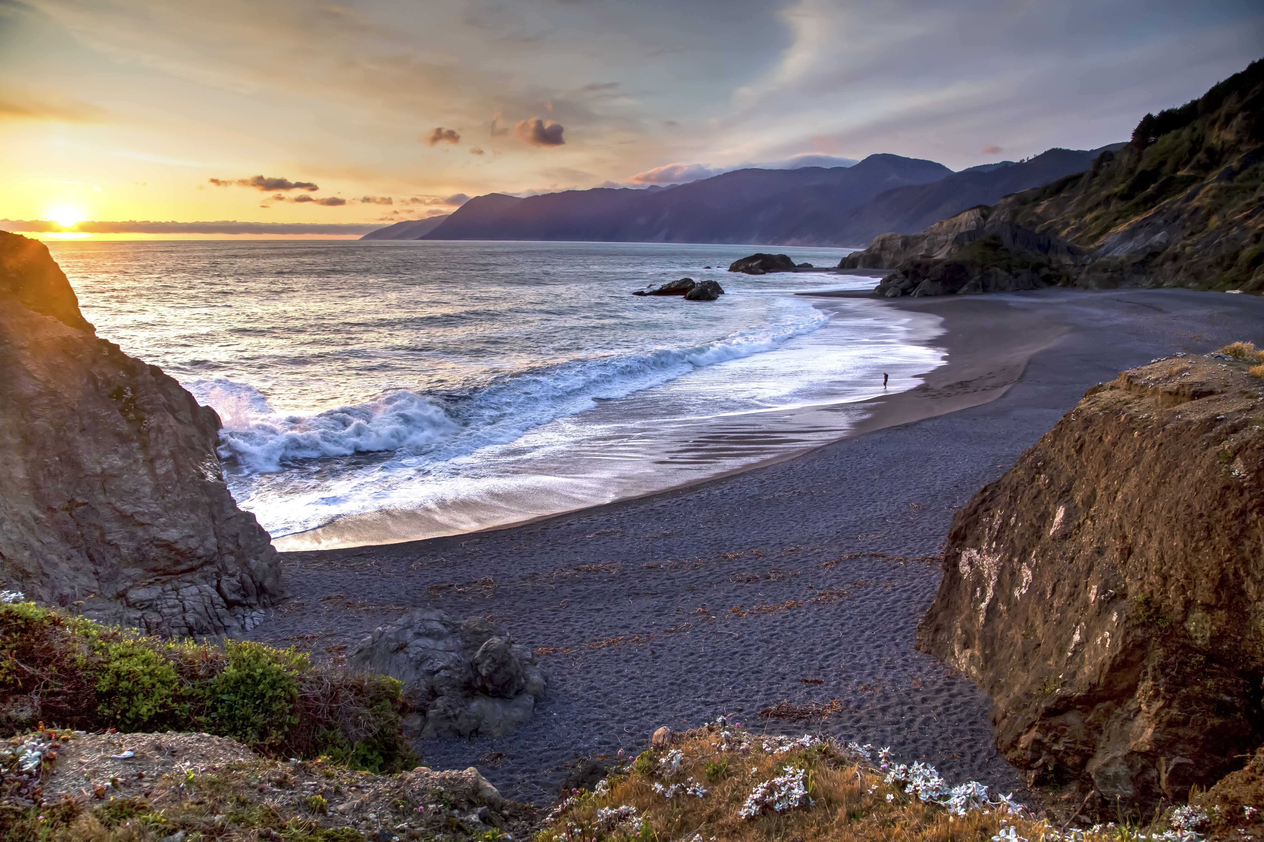 A spectacular meeting of land and sea is certainly the dominant feature of King Range National Conservation Area. Mountains seem to thrust straight out of the surf; a precipitous rise rarely surpassed on the continental U.S. coastline. King Peak, the highest point at 4,088 feet, is only three miles from the ocean. The King Range NCA covers 68,000 acres and extends along 35 miles of coastline between the mouth of the Mattole River and Sinkyone Wilderness State Park. Here the landscape was too rugged for highway building, forcing State Highway 1 and U.S. 101 inland. The remote region is known as California's Lost Coast, and is only accessed by a few back roads. The recreation opportunities here are as diverse as the landscape. The Douglas-fir peaks attract hikers, hunters, campers and mushroom collectors, while the coast beckons to surfers, anglers, beachcombers, and abalone divers to name a few. For more information visit: Photos/Videos: Bob Wick, BLM